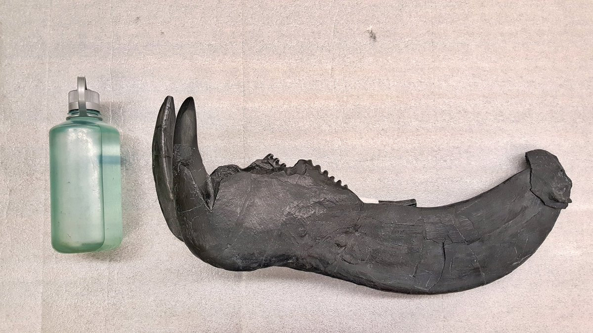 The paired lower infragnathals of Gorgonichthys with a one liter water bottle for scale. Bottle height is approximately 23 cm.